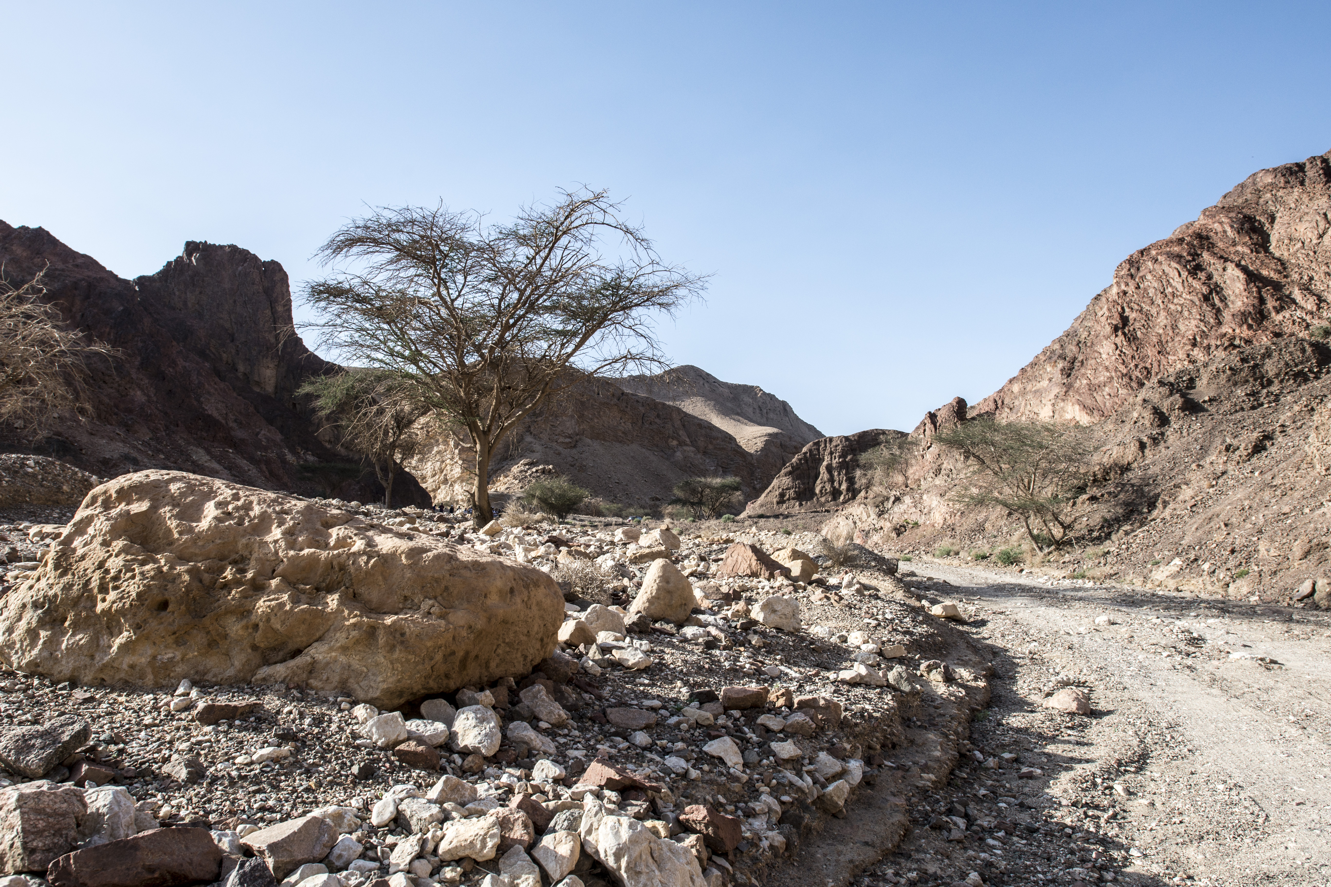 Nahal Shlomo wadi in southern Israel